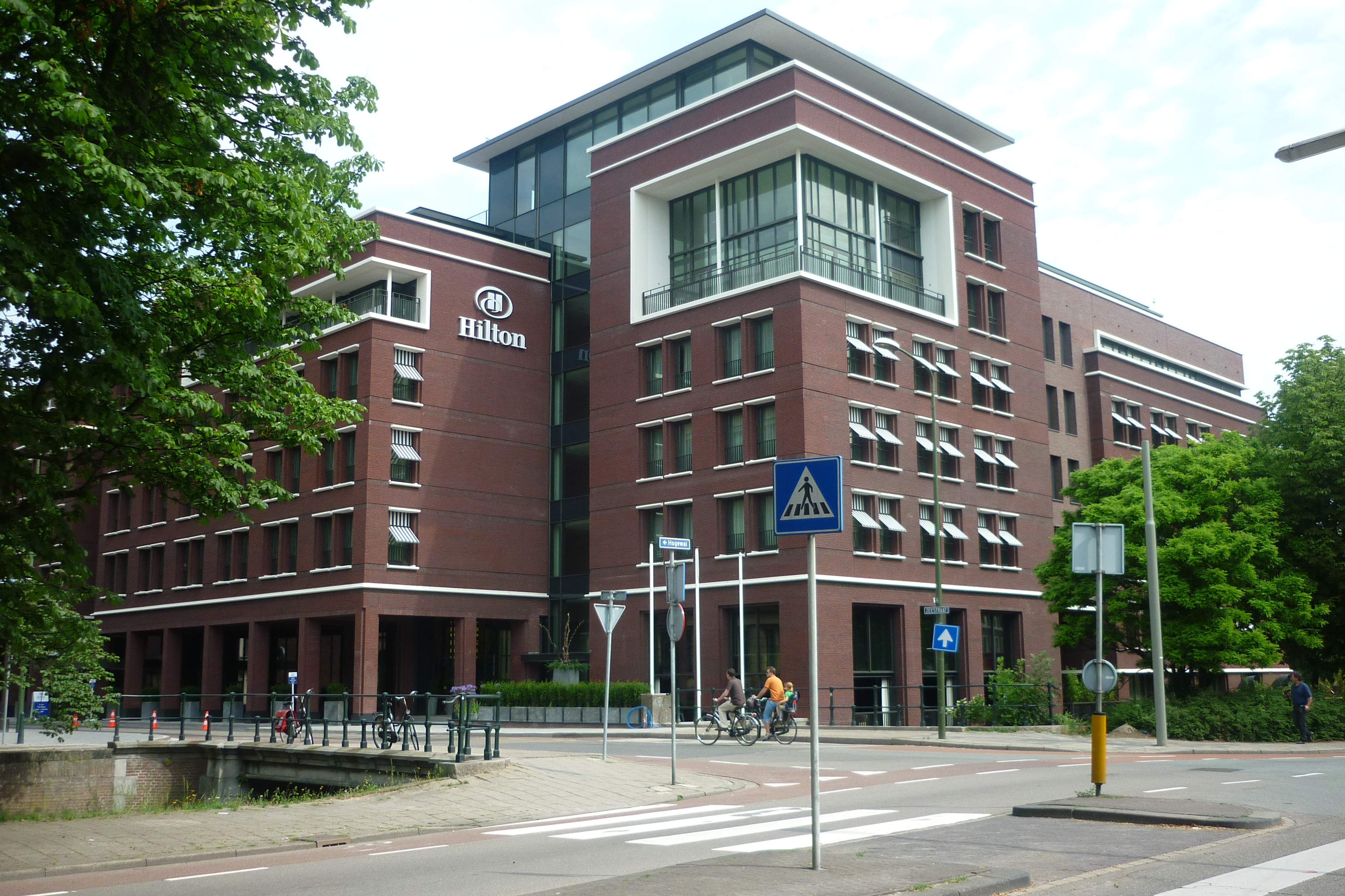 Hilton The Hague